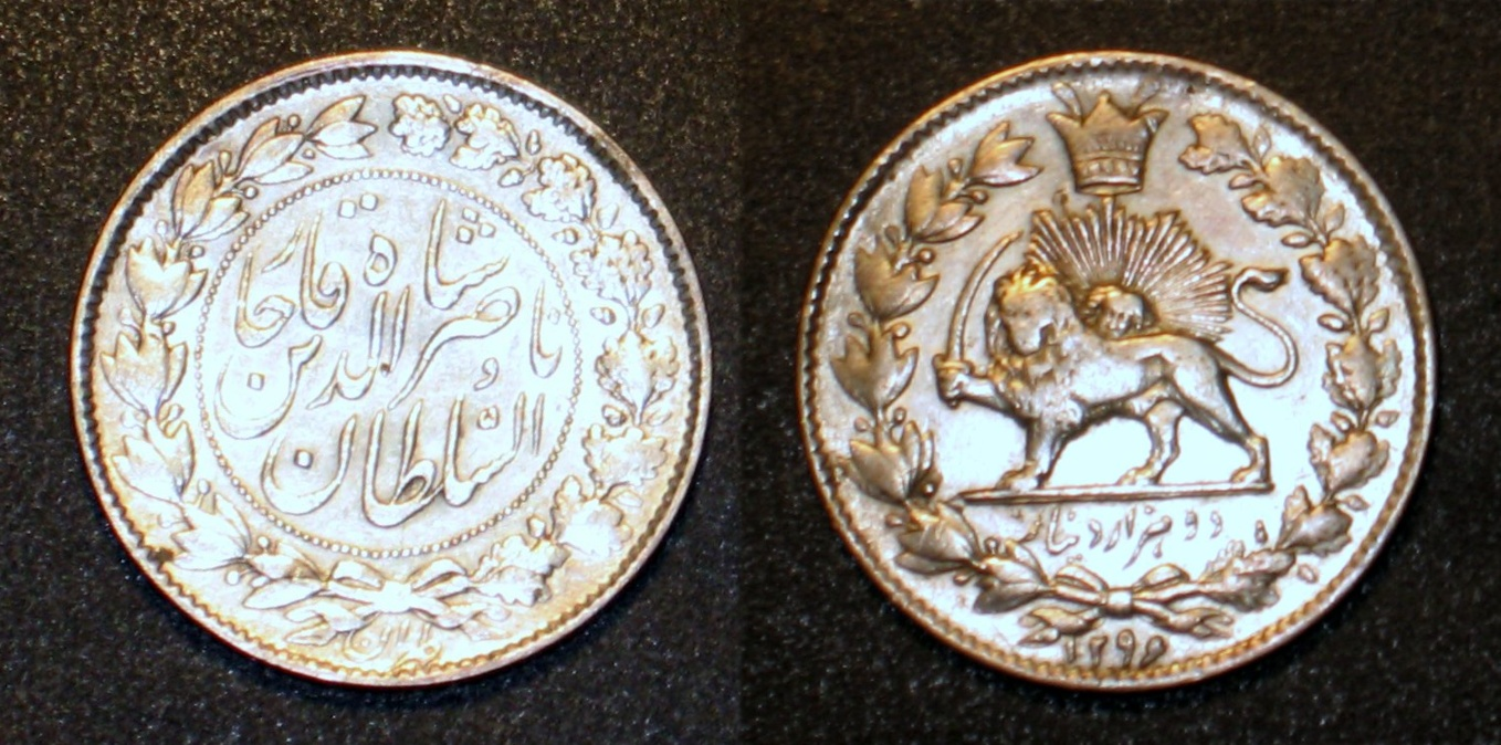 A coin with the name of Nasser-al-Din Shah Qajar Naser (1848 – 1896 ) was one of the Kagan rulers in Iran, a family that ruled Iran for 135 years. Ø 31.3 mm ǂ 2.0 mm